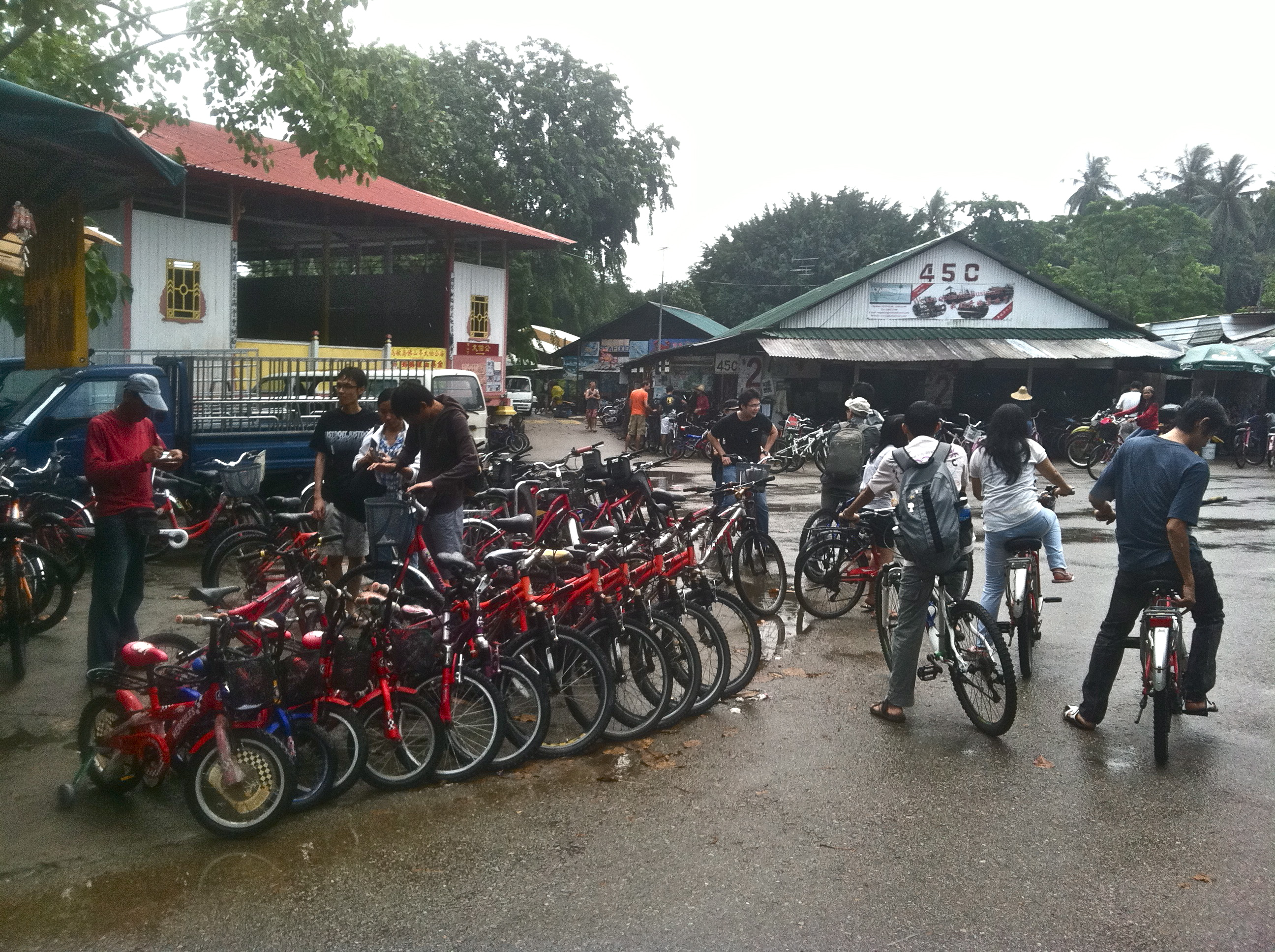 A bicycle hire shop on Pulau Ubin, Singapore.